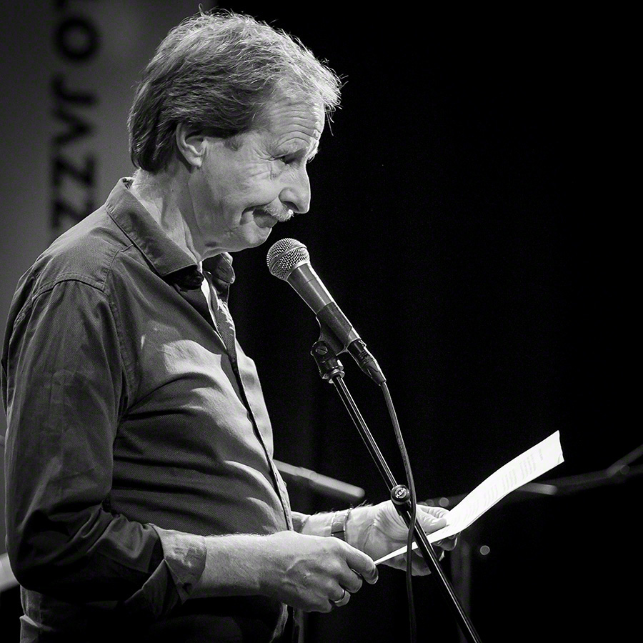 Kjartan Fløgstad performs with Ferdigsnakka: Broen og Moskus at the stage of Nasjonal Jazzscene Victoria. The concert was part of the Oslo Jazz Festival in Norway and took place on 15. August 2016. Lineup:Anja Lauvdal (keyboard)Fredrik Luhr Dietrichson (double bass)Hans Hulbækmo (drums)Heida Karine Johannesdottir (tuba)Lars Ove Fossheim (guitar)Lars Saabye Christensen (spoken words)Kjartan Fløgstad (spoken words)Vigdis Hjorth (spoken words)Geir Gulliksen (spoken words)Ingvild Schade (spoken words)